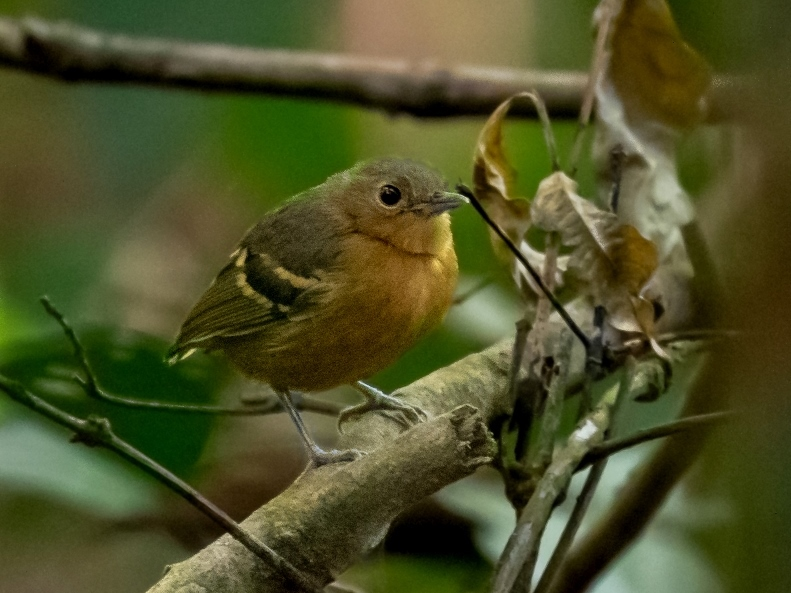 Plain-throated Antwren (female); Carajas National Forest, Para, Brazil